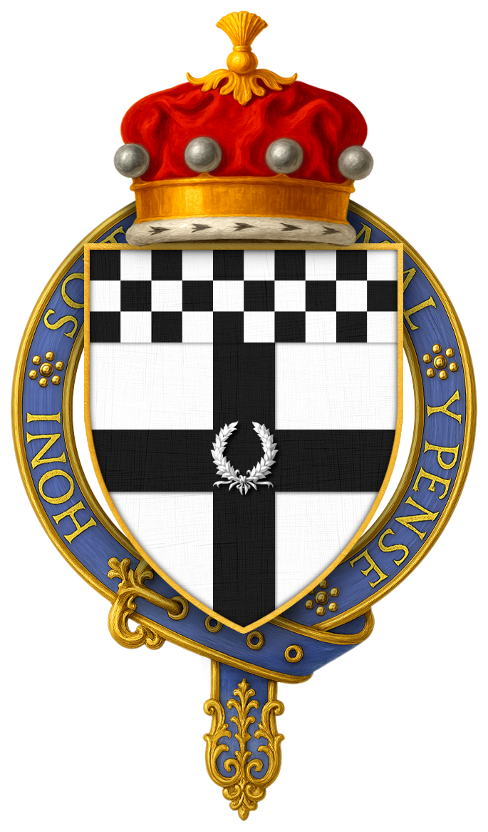 Coat of Arms of Edward Bridges, 1st Baron Bridges, KG, as displayed on his Order of the Garter stall plate in St. George's Chapel, Windsor Castle - viz. Argent, a cross sable charged with a wreath of laurel fructed argent, a chief chequy sable and argent.